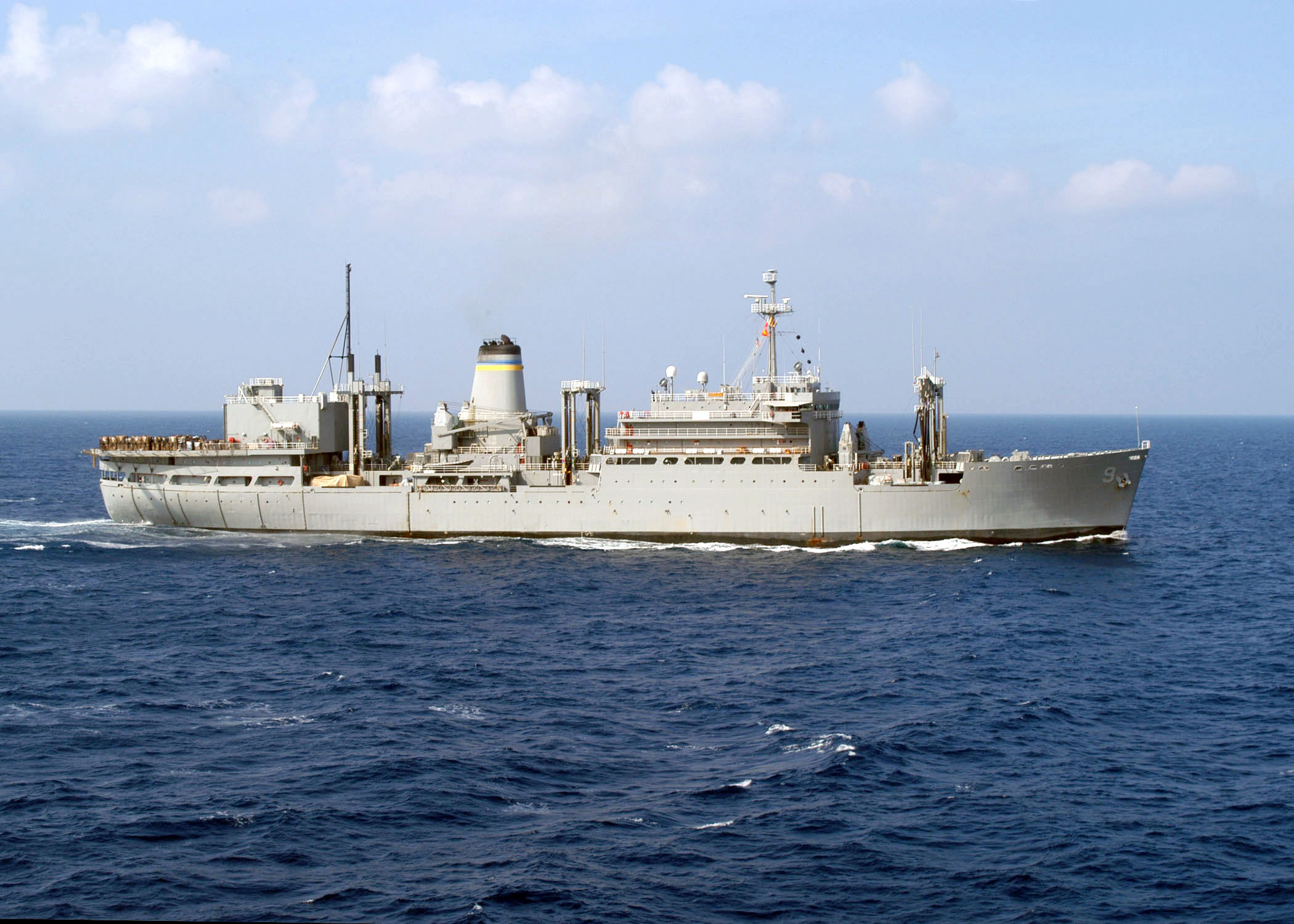 The Mediterranean Sea (Mar. 7, 2003) -- The combat stores ship USNS Spica (T-AFS 9) as seen from aboard USS Theodore Roosevelt (CVN 71). U.S. Navy photo by Photographer’s Mate 2nd Class Michelle L. McCandless. (RELEASED)